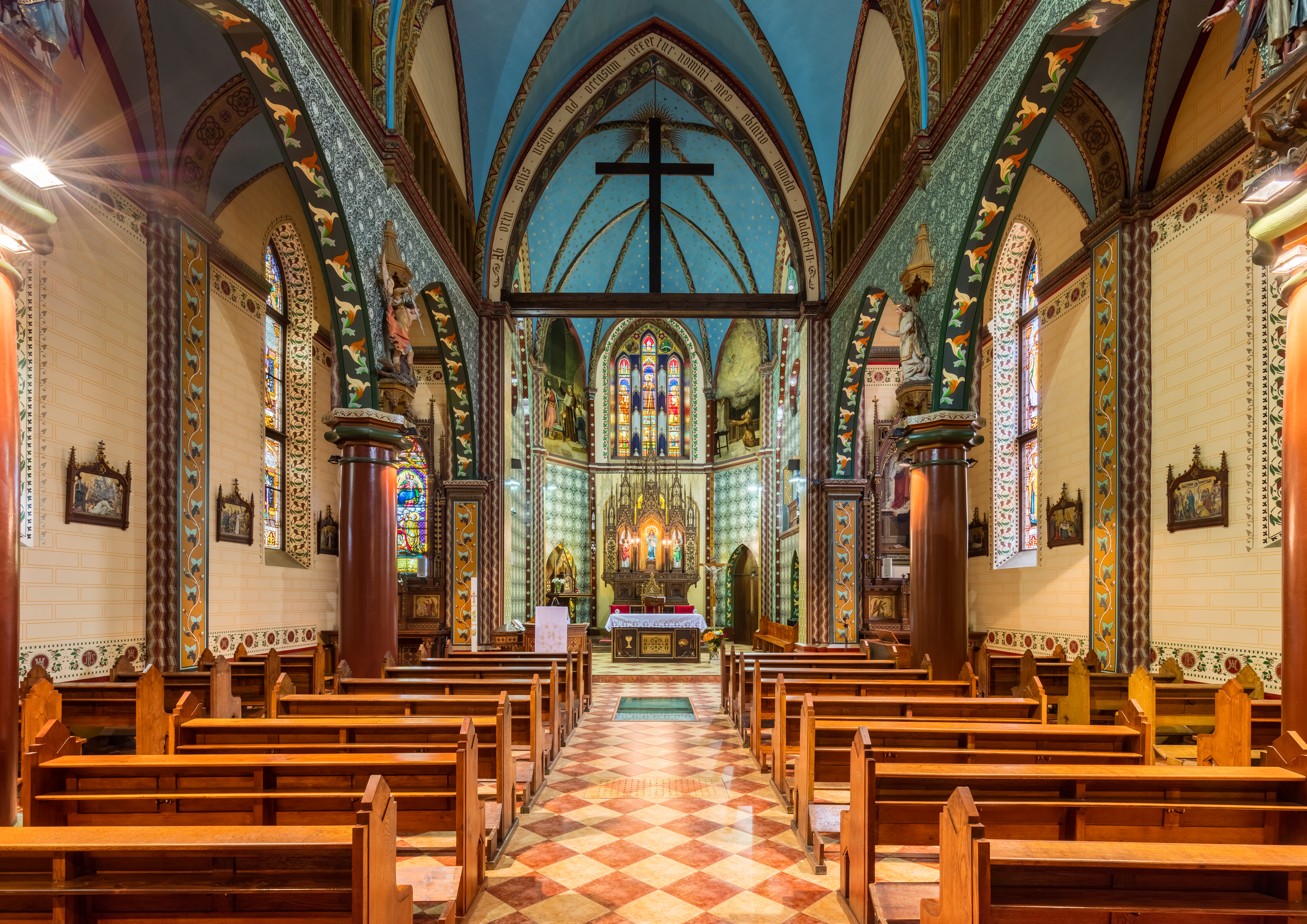 Interior of the St Paul of the Cross Cathedral, Ruse, northeastern Bulgaria. The temple, dedicated to the founder of the Passionists was built in 1890 and is an example of Gothic Revival architecture in the country.